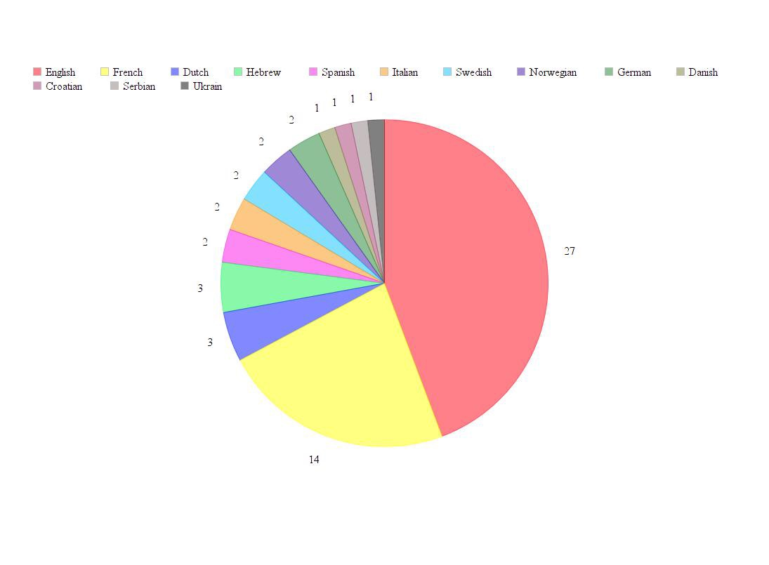 Winning languages in the Eurovision Song Contest (ESC) until 2015